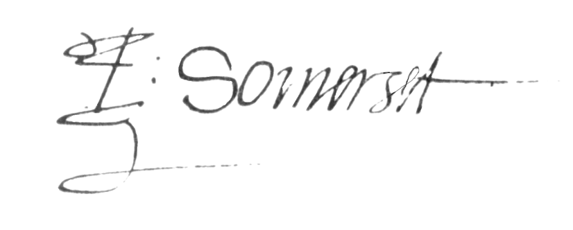 Signature of Edward Seymour 1st Duke of Somerset (c.1506–1552). Lord Protector of England 1547–1549.